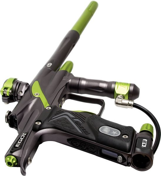 2008 Ego. Grey with Lime Green accents.